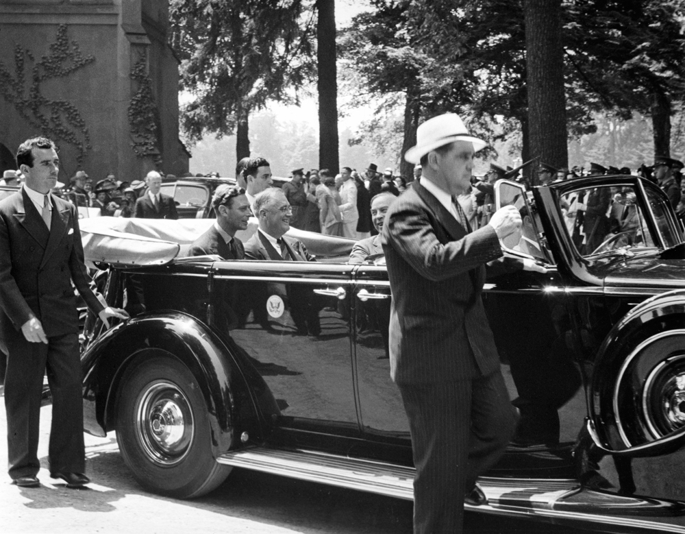 King George VI, President Roosevelt, and Prime Minister King leaving St. James Church after attending morning services. June 11, 1939